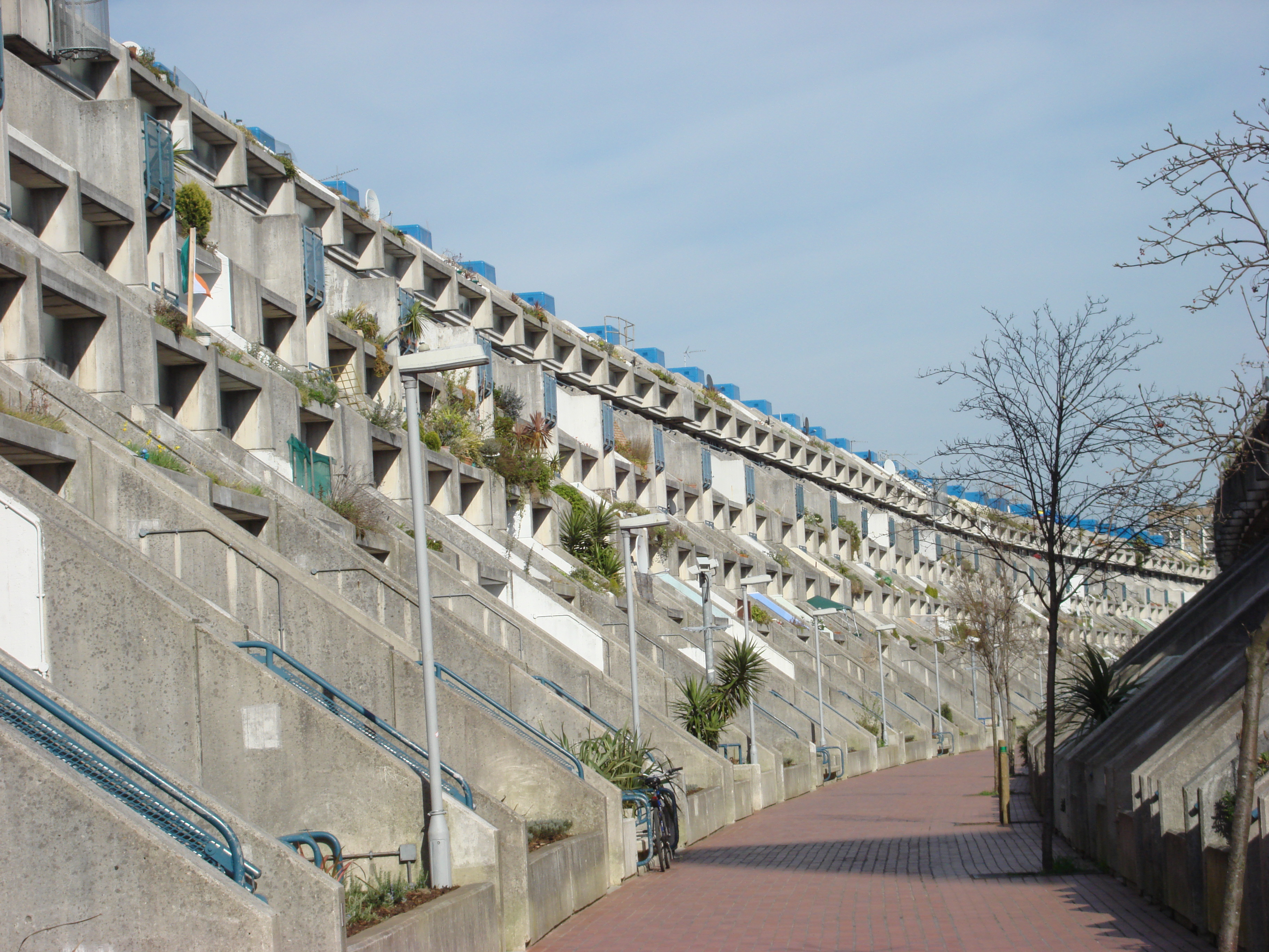 Rowley Way, Alexandra and Ainsworth Estate, Camden, London